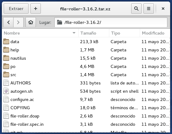 Screenshot of File Roller 3.16.2, the file archiver for the GNOME desktop, with Adwaita theme on fedora 22.